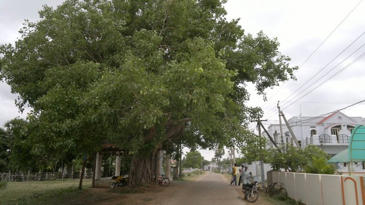 An old holy fig tree near ramalayam in Pothumarru village.